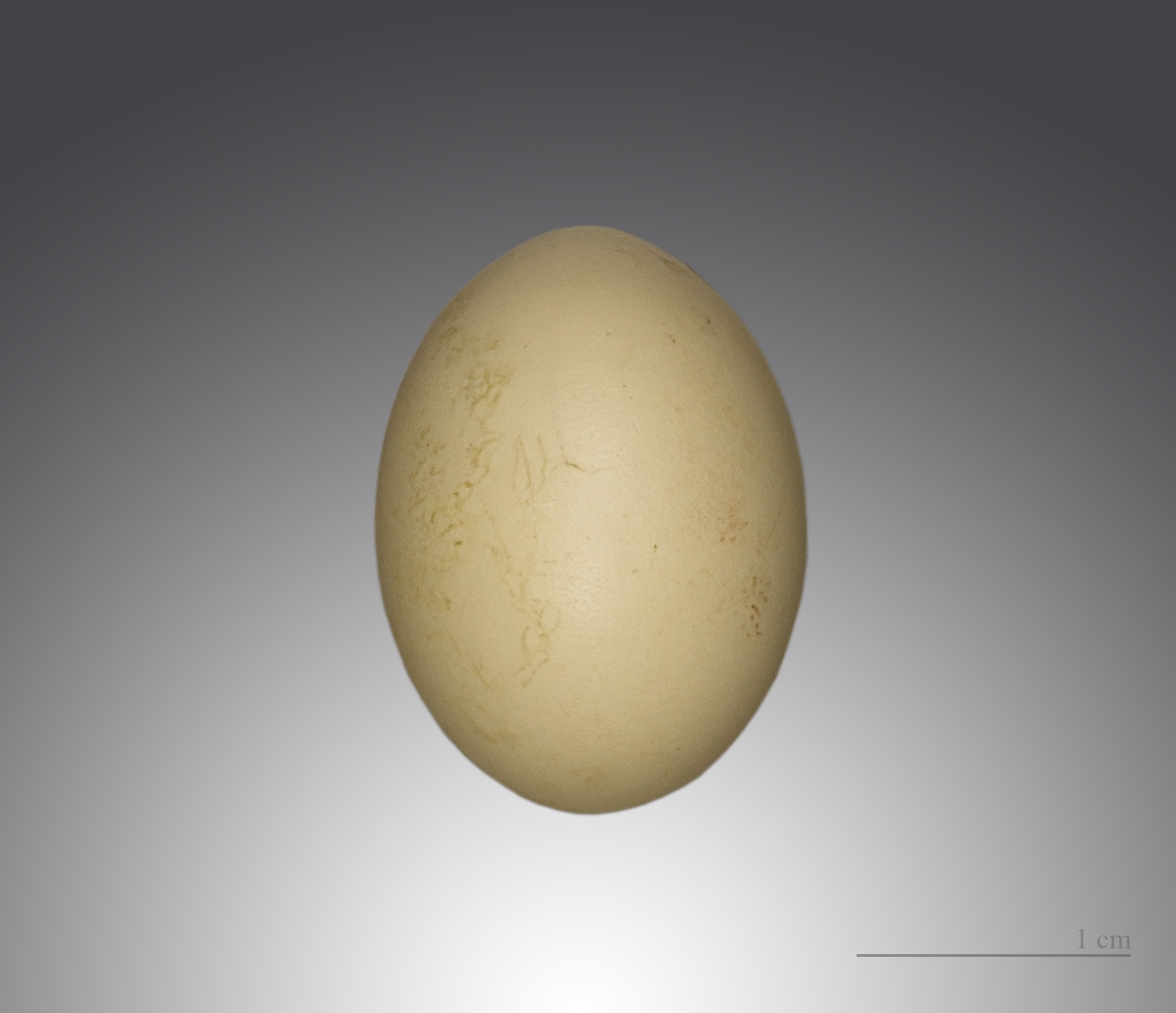 Egg of Namaqua Dove. Collection of Henri Heim de Balsac/Jacques Perrin de Brichambaut. Locality : Atar, Mauritania